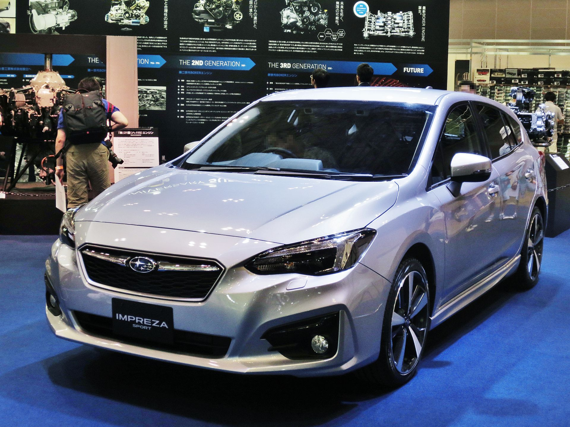 5th gen Subaru Impreza Sport in Automobile Council 2016.